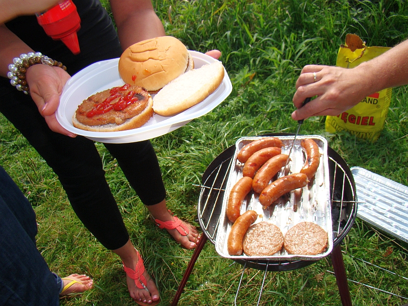 Grilling on the bank at San river, Sanok